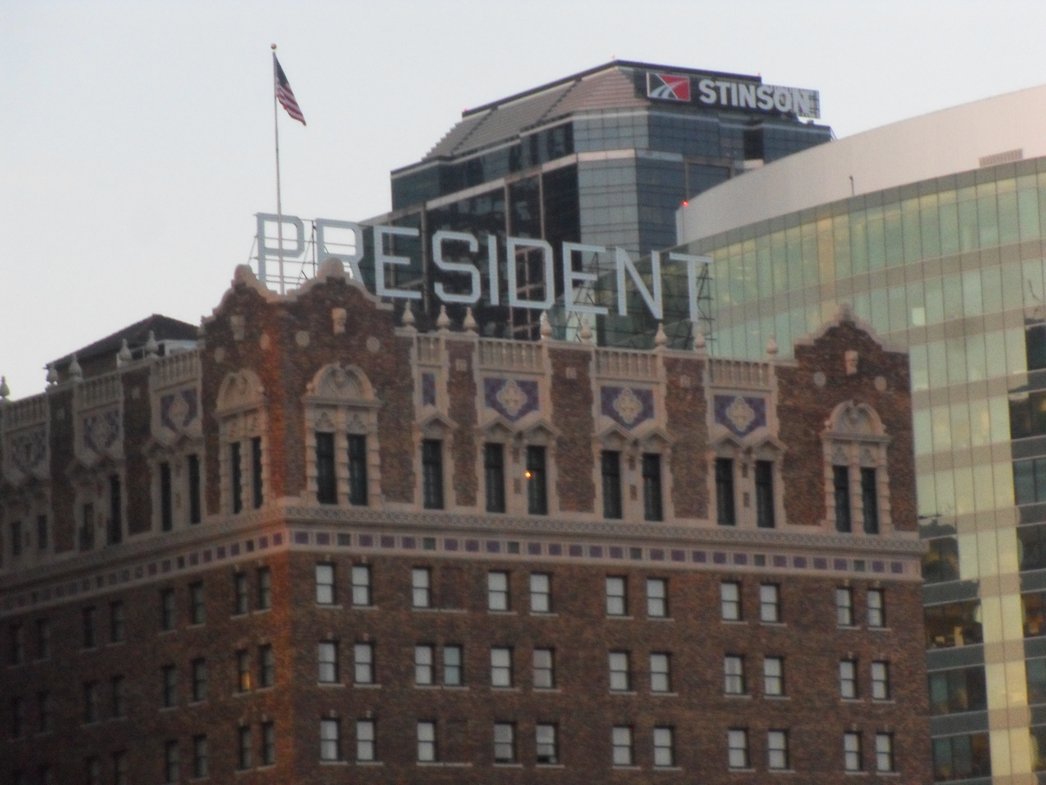 Presidents Hotel looking from the convention center.